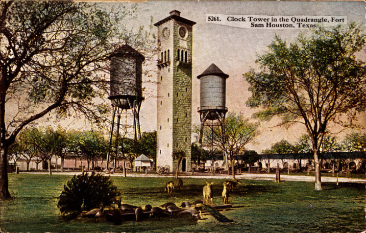 Clock Tower in the Quadrangle, Fort Sam Houston